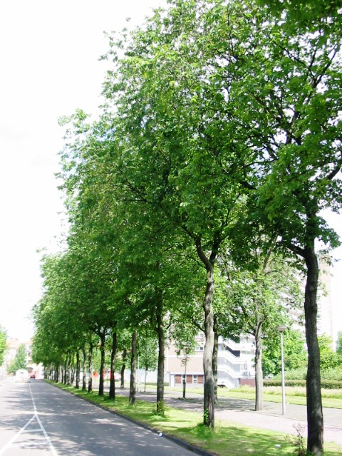 'Bea Schwarz', Amsterdam. Photo by R. Nijboer